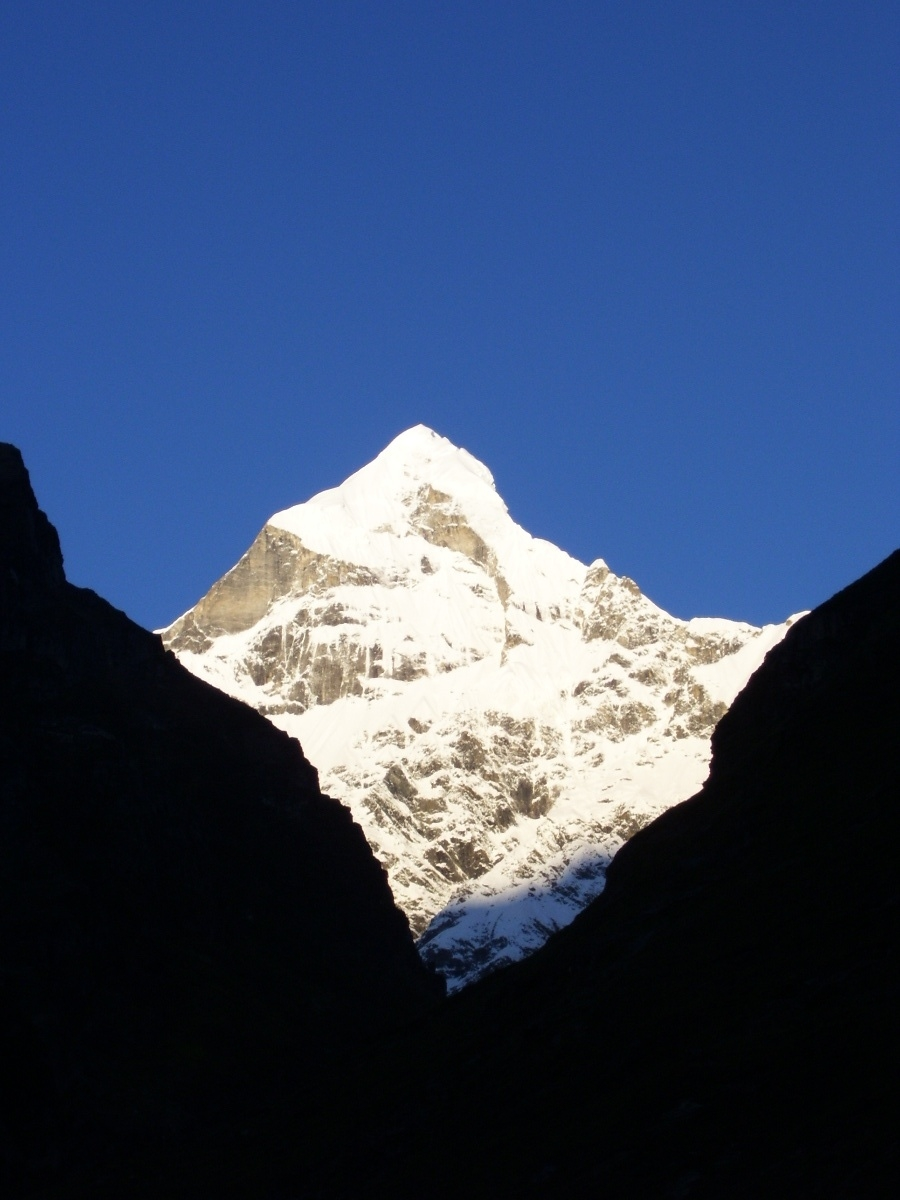 Neelkanth Parbat from Badrinath. ಕನ್ನಡ: ಬದರೀನಾಥ್‌‌ನಿಂದ ಕಾಣಿಸುವ ನೀಲಕಂಠ ಪರ್ವತ.